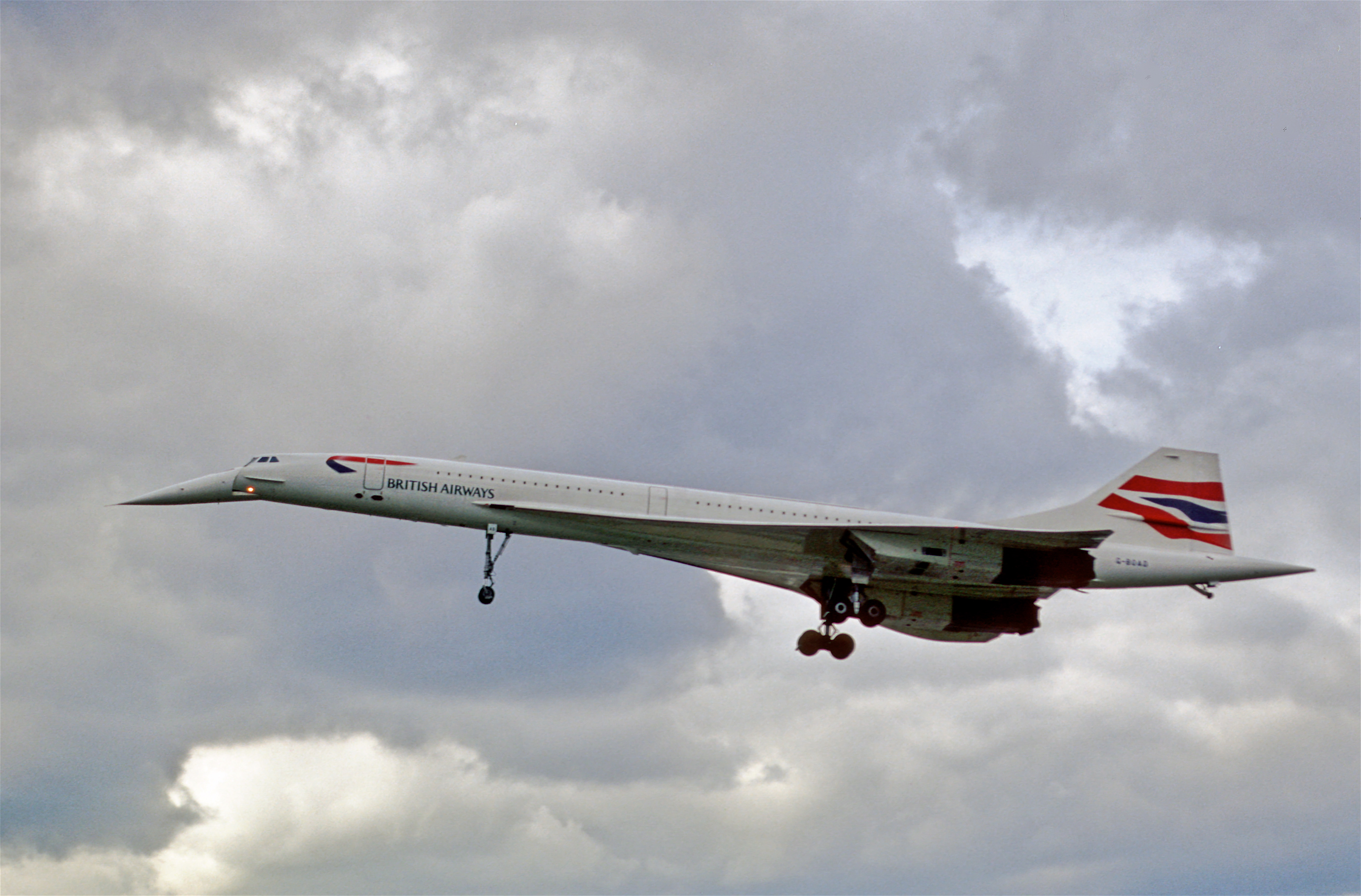 Concorde arriving from JFK on an overcast pleasant May afternoon... This unique machine is displayed at Intrepid Air & Space Museum, New York City...